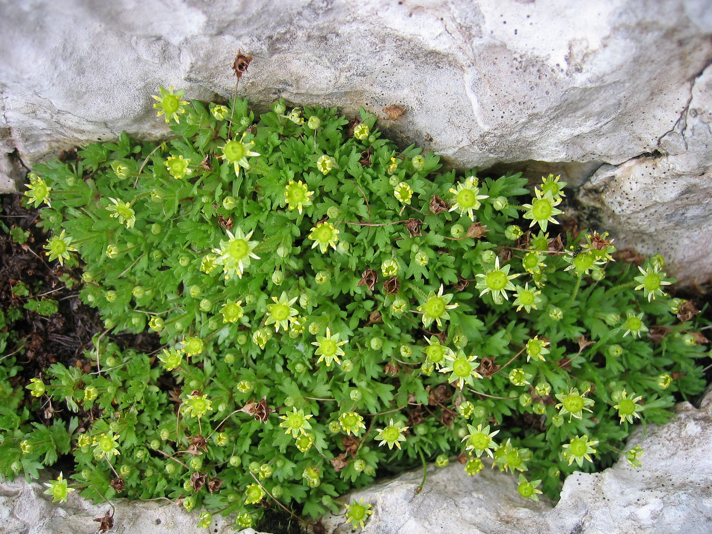 Saxifraga aphylla, Warscheneck ~2.100 m, Upper Austria, Austria